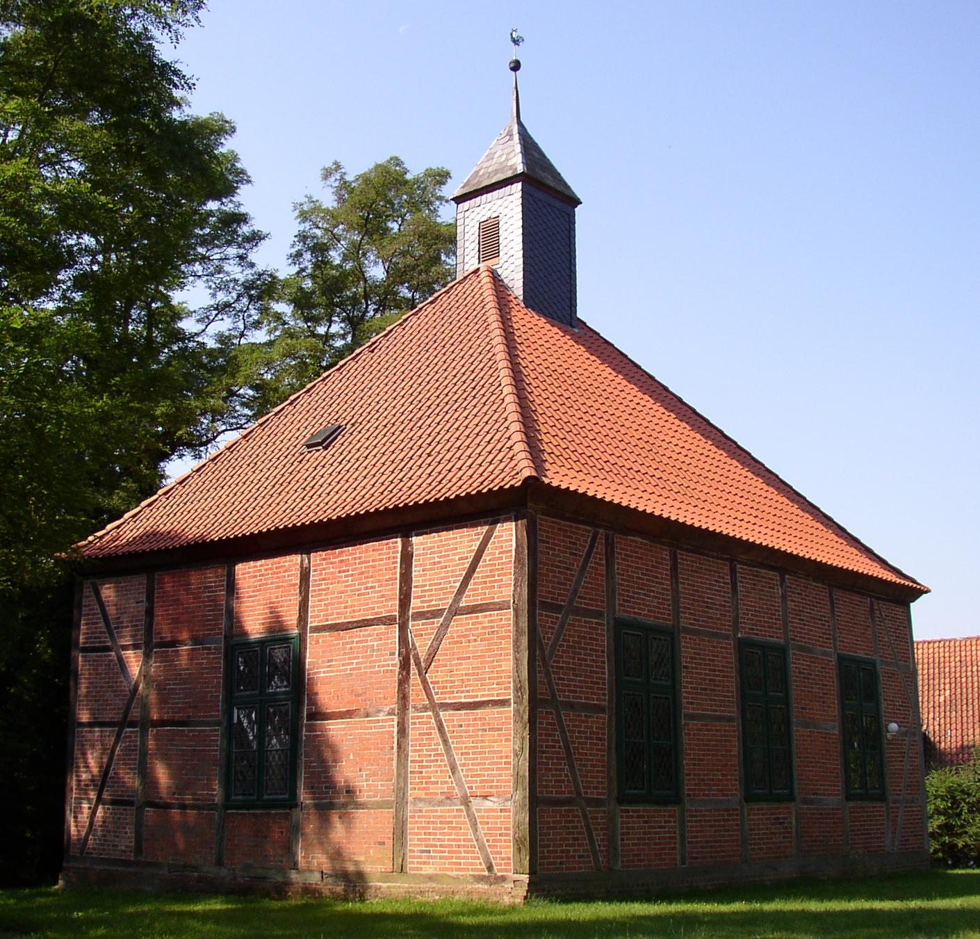 Chapel in Dersenow in Mecklenburg-Western Pomerania, Germany